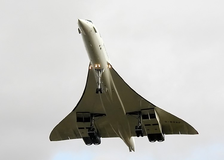 Concorde